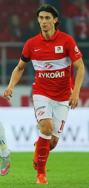 Ilya Kutepov